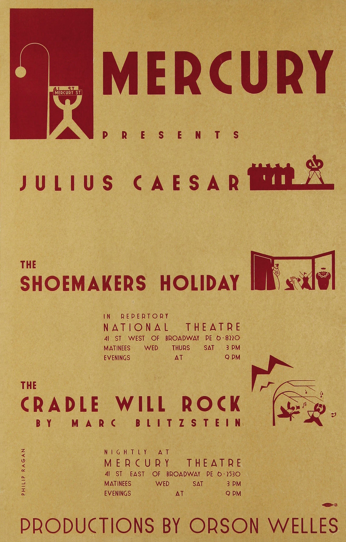 Poster for the Mercury Theatre From Run-Through, A Memoir by John Houseman (1972), page 342:So now during February and March [1938], the Mercury had one hundred and twenty-four actors performing in four shows in three theatres. Our three New York shows were playing within two blocks of each other on West Forty-first Street. We renamed it Mercury Street, and without permission from the city, put up temporary signs to that effect on the corners of Sixth and Seventh Avenues and Broadway. And we engaged a young specialist in industrial graphics to design an elegant poster, headed Welcome to Mercury Street, in which each of our productions was clearly symbolized by small, stylized figures: fascist-military; renaissance-comic; a cradle in a treetop in a rising wind.